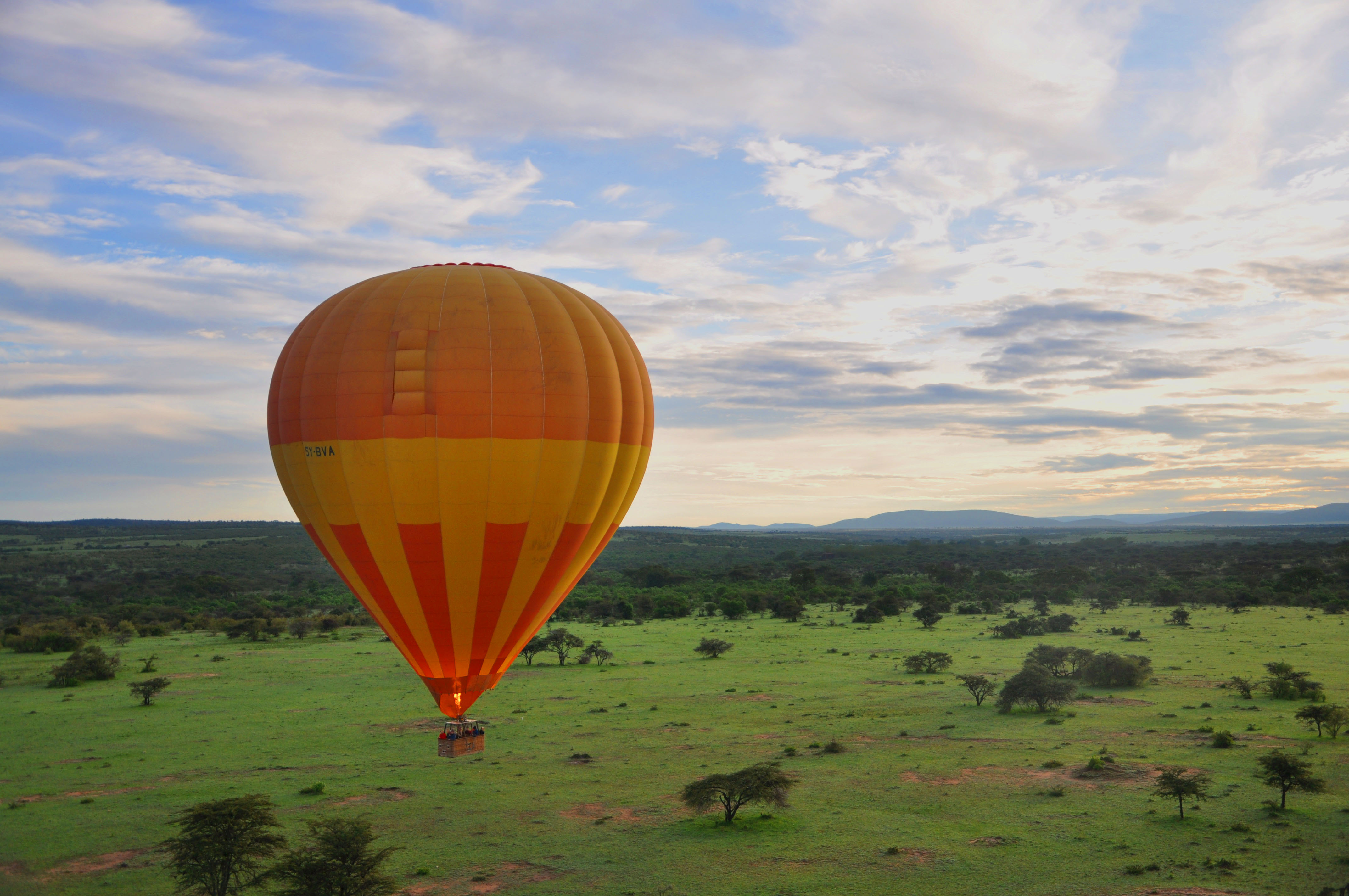 The picture was taken from a Balloon during a Hot Air Balloon Safari in Maasai Mara Kenya. The other balloon is visible floating under our balloon